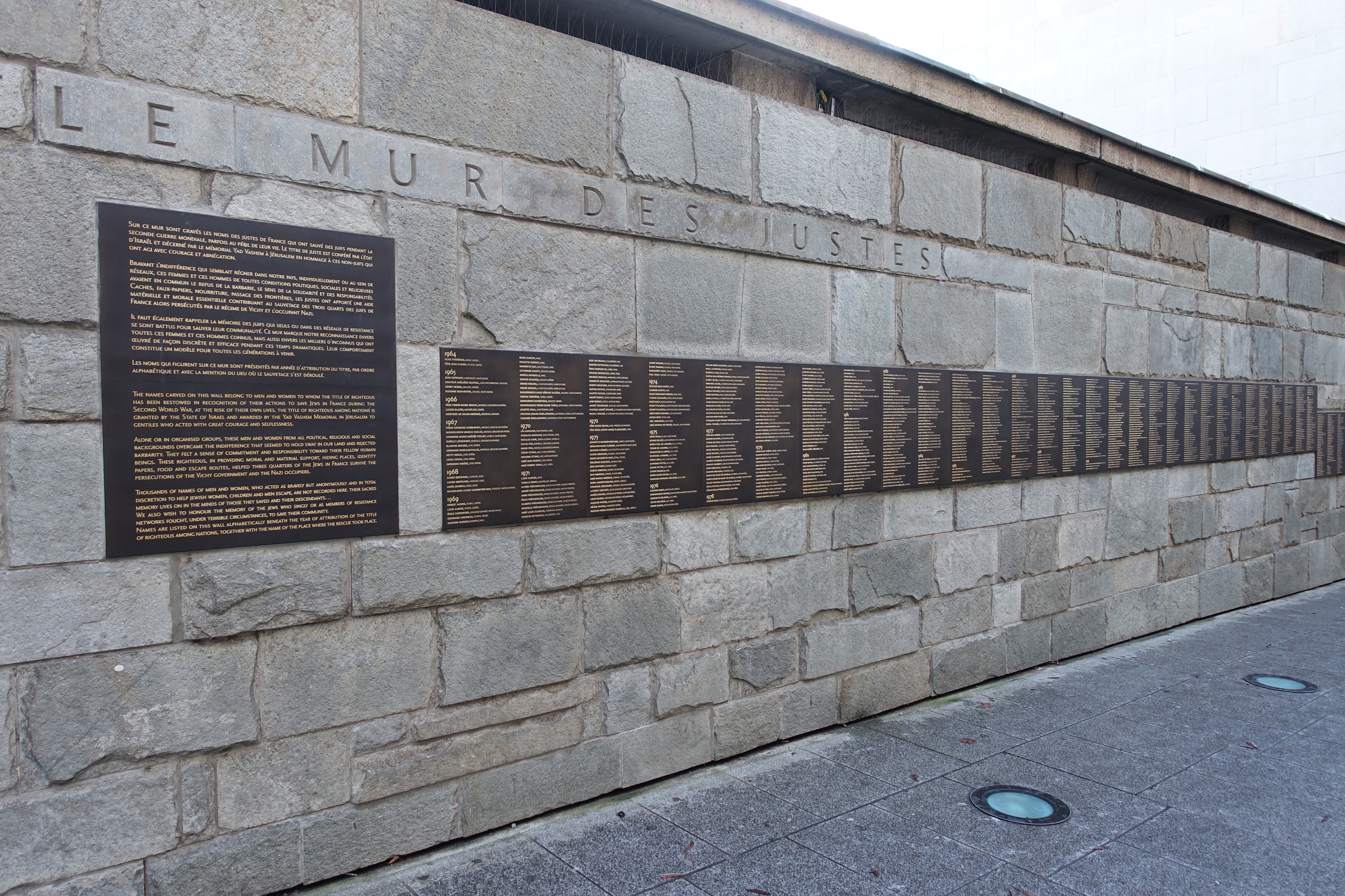 Mémorial de la Shoah